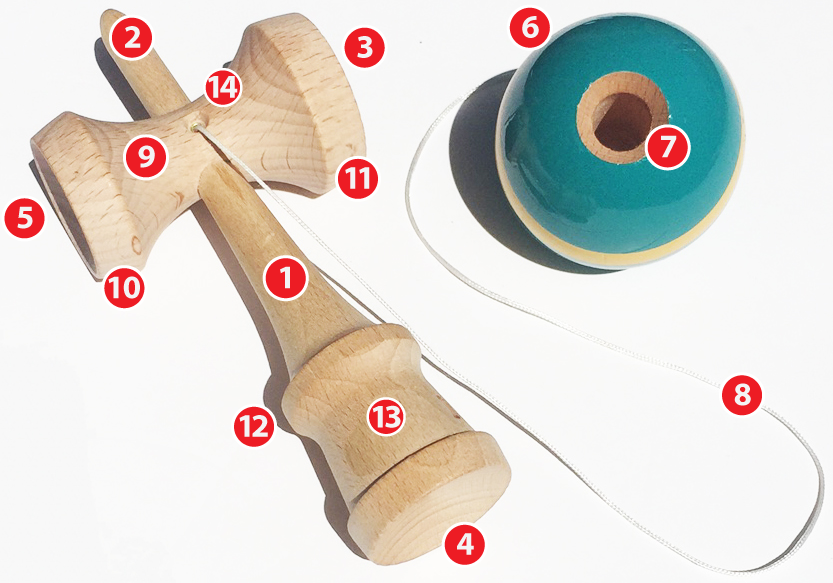 Kendama ball toy with numbers for each part on a plain white background. 1. Main body: ken (剣). 2. Spike: kensaki (剣先). 3. Large cup: ōzara (大皿). 4. Base cup: chūzara (中皿). 5. Small cup: kozara (小皿). 6. Ball: tama (玉). 7. Hole: ana (穴). 8. String: ito (糸). 9. Cup body: saradō (皿胴). 10. Small cup edge: kozara no fuchi (小皿のふち). 11. Big cup for lunars: ōzara no fuchi (大皿のふち). 12. Slip-stop or slip grip: suberidome (すべり止め). 13. Back end: kenjiri (けんじり). 14. String attachment hole: ito toritsuke ana (糸取り付け穴). 15. Bead (not pictured)